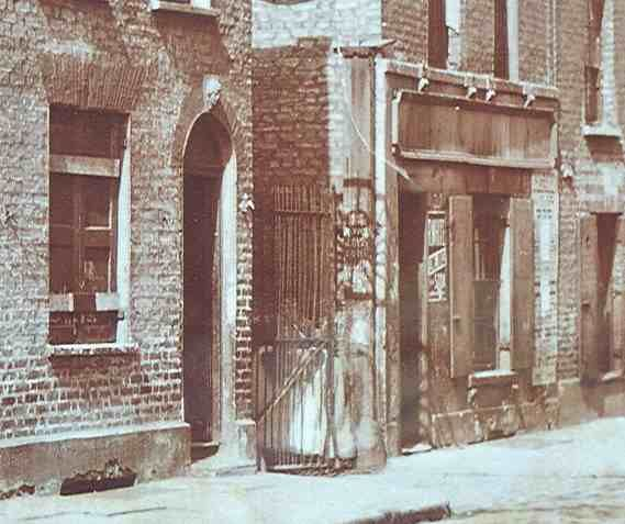 Dutfield's Yard (Berner Street, Whitechapel)